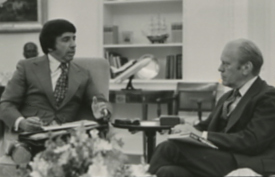 The photo contact sheet, identified as B1712 by the White House Photographic Office (WHPO), is housed at the Gerald R. Ford Presidential Library, a branch of the National Archives and Records Administration (NARA). This file is a 200 dpi photo contact sheet having images from roll of film B1712 of the August 9, 1974 - January 20, 1977 Gerald R. Ford White House Photographic Office Series A0001-A9999 and B0001-B2886 photographs. The date on the photo contact sheet is the date the roll of film was processed, not necessarily the date the photographs were taken. See table below for additional details.